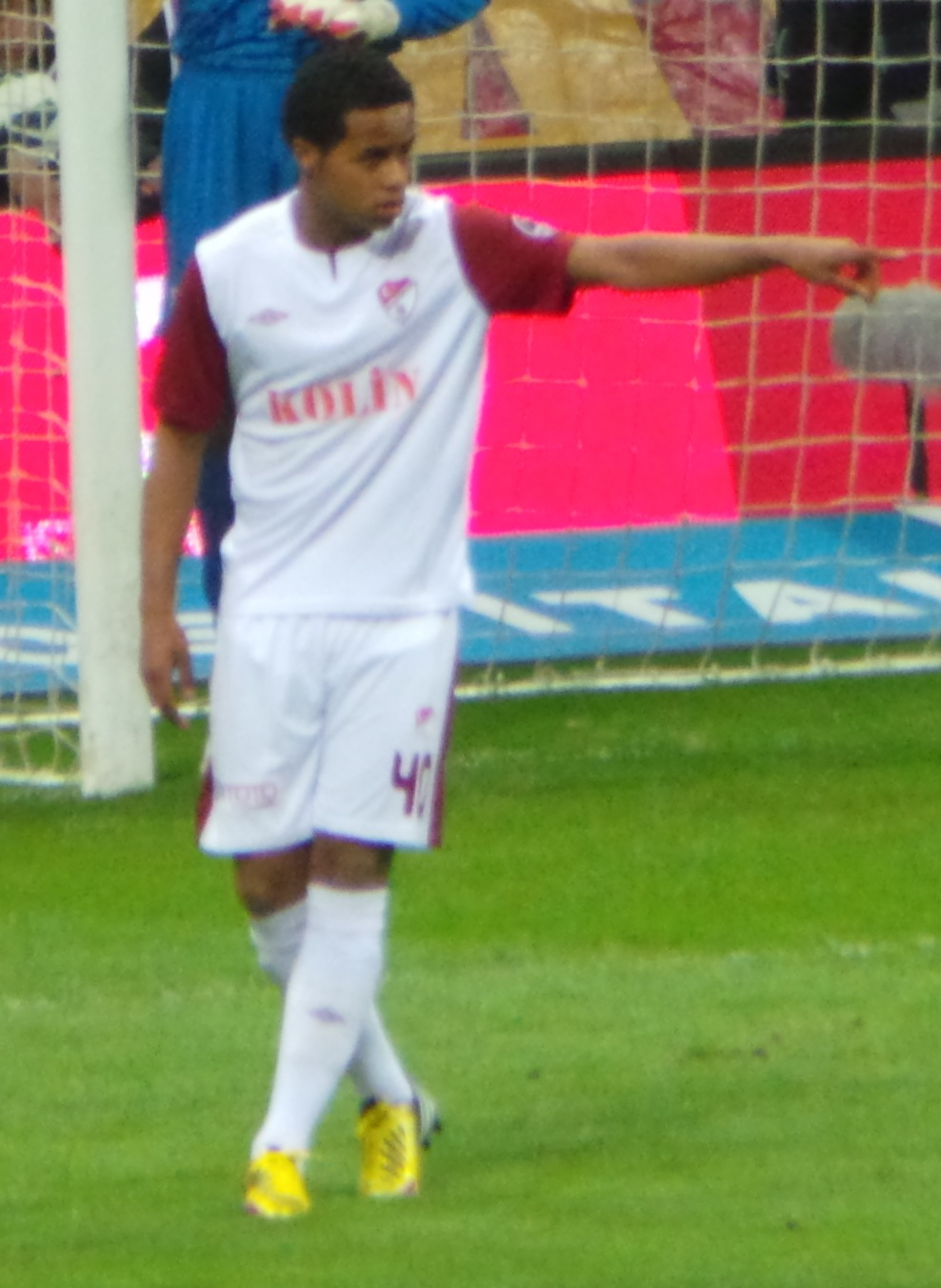 Alberg vs Galatasaray